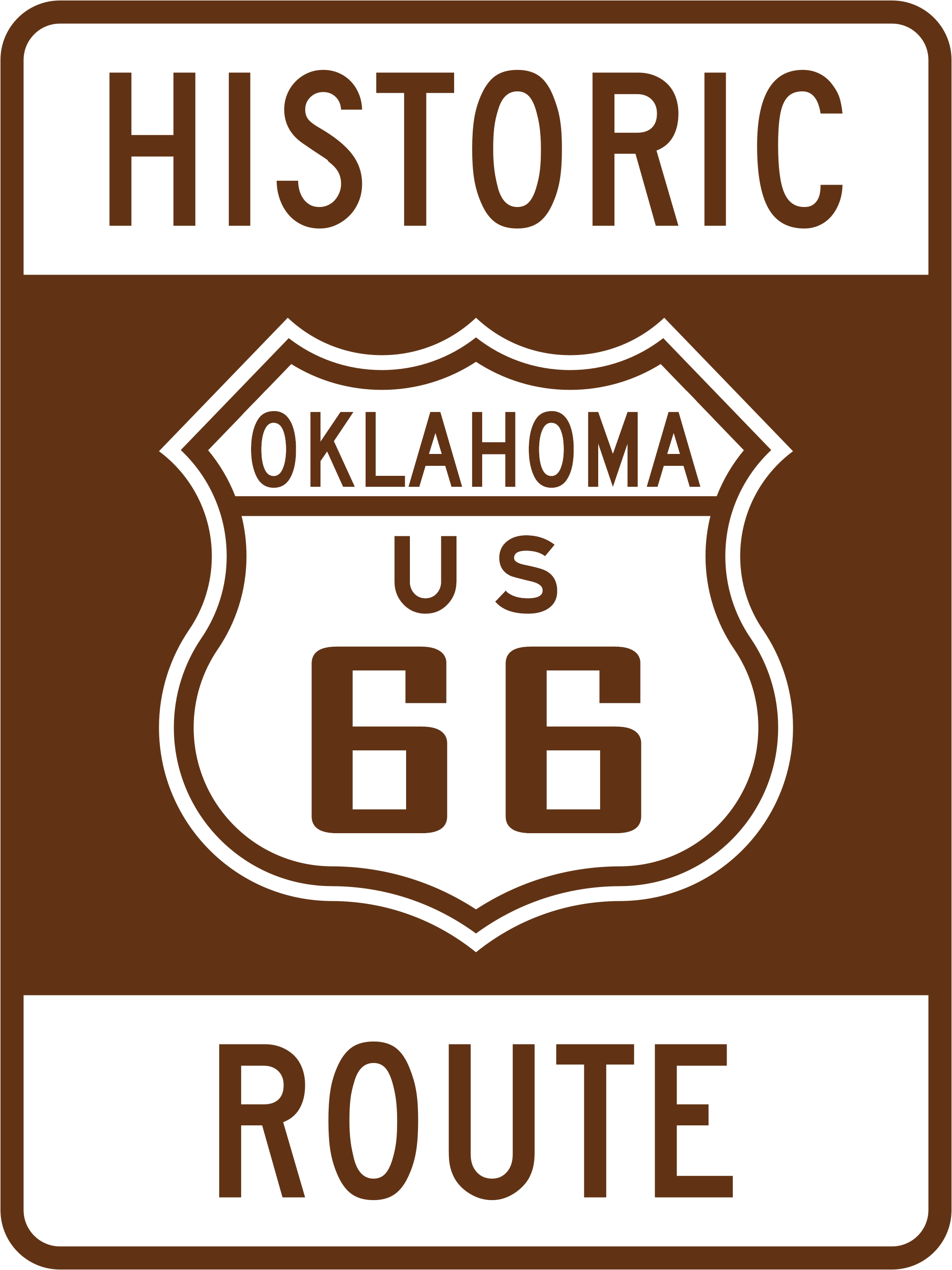 HISTORIC OKLAHOMA ROUTE 66